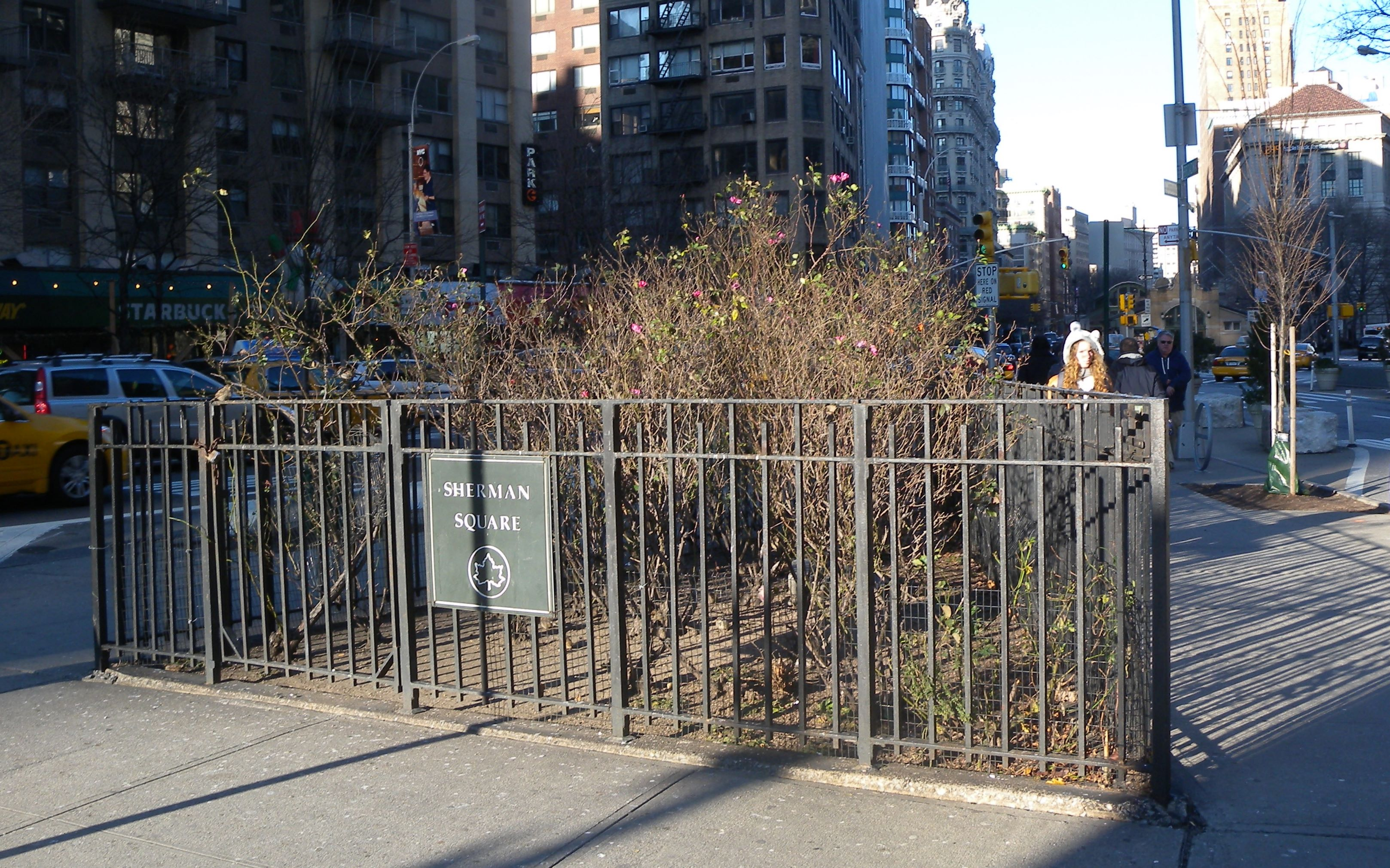 Looking north at Sherman Square on a sunny afternoon.